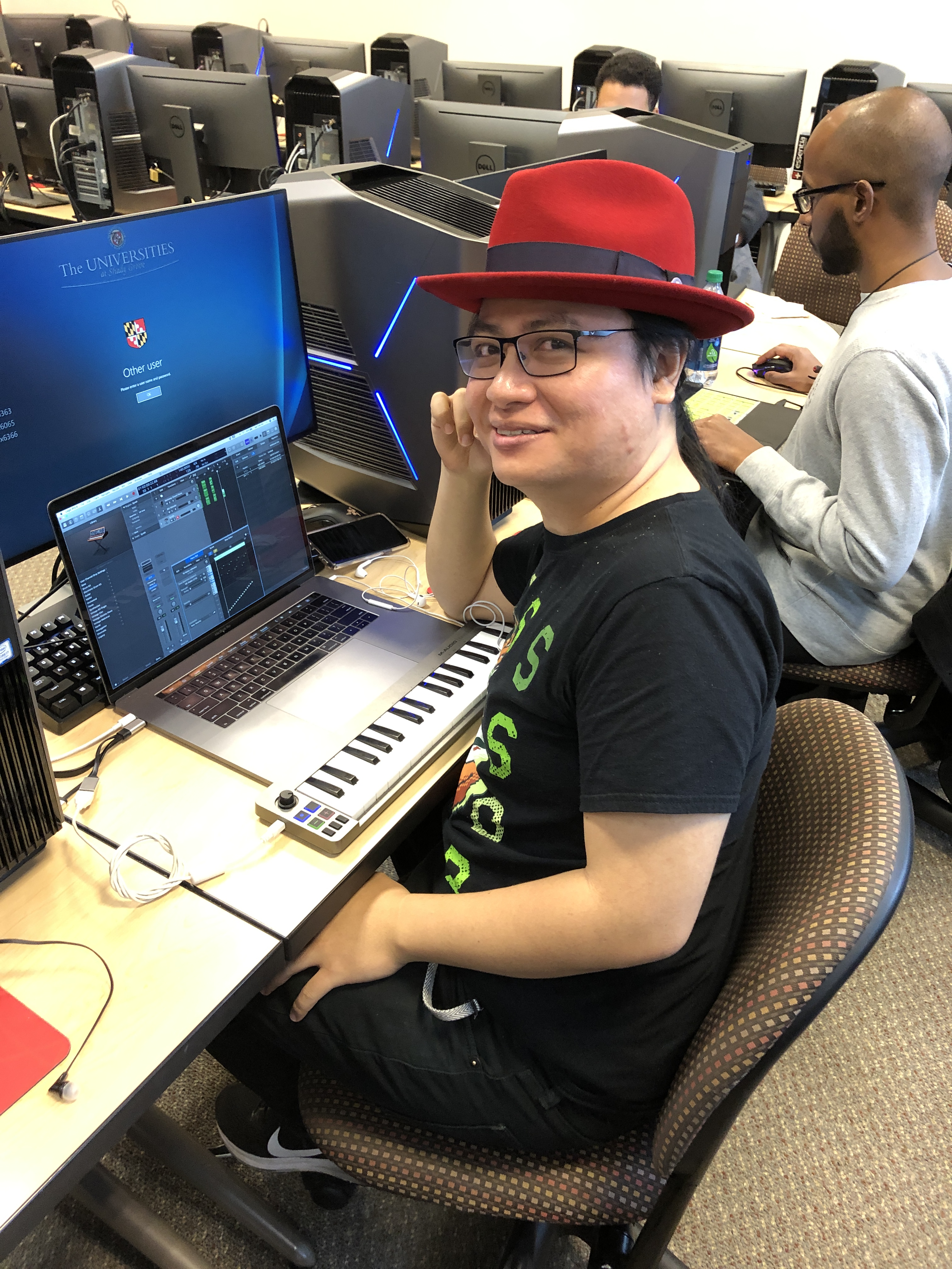 Diwa De Leon, at a Shady Grove University team of Global Game Jam 2019